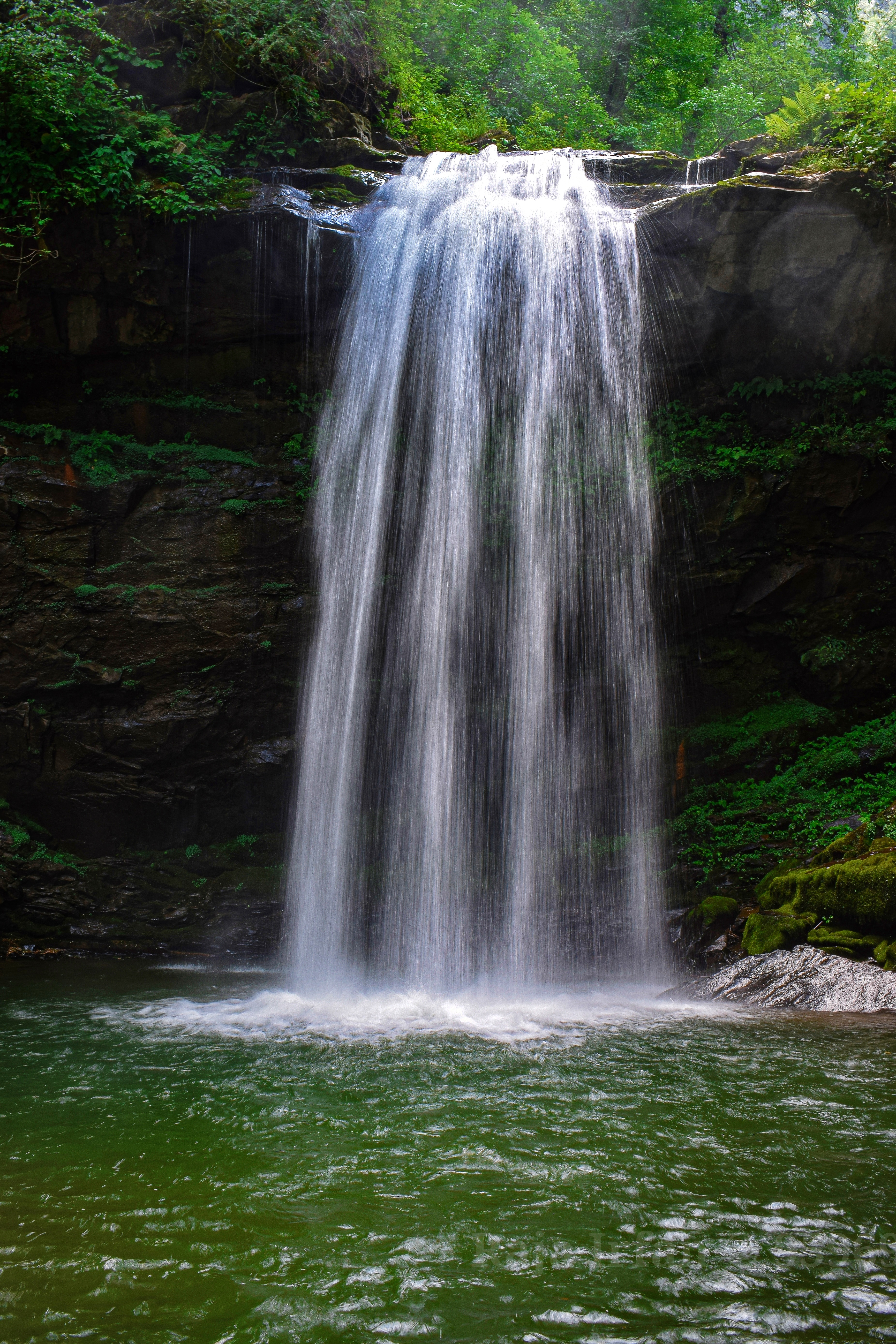 This place is located at tehsil Bhalessa in Doda district of Jammu and Kashmir. A section of people perform a religious ritual there.